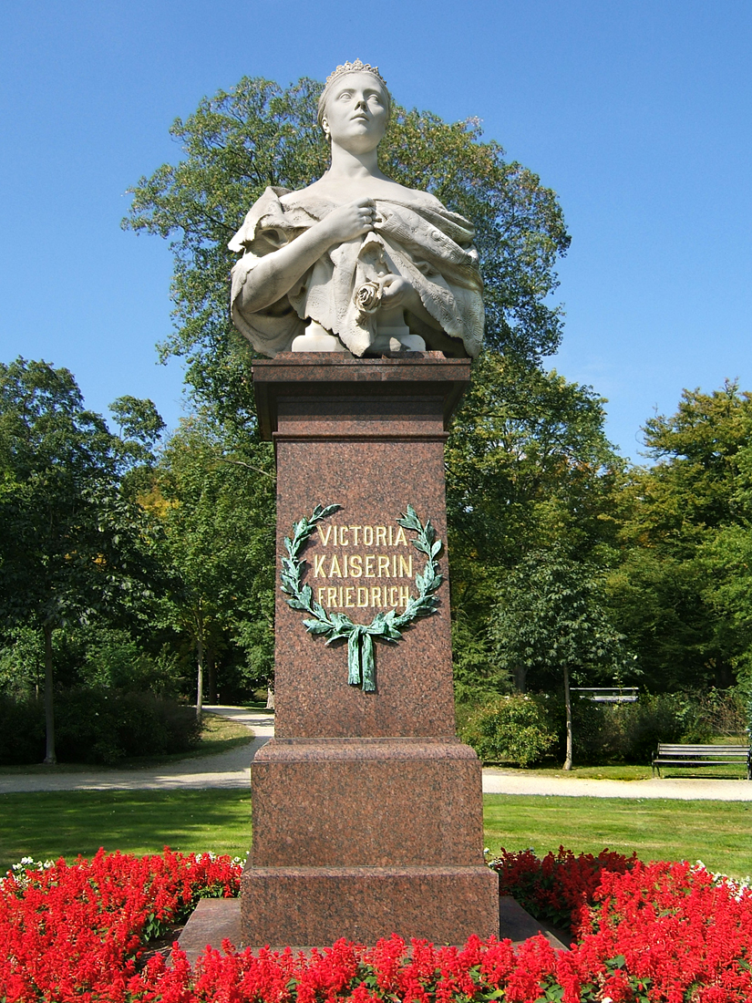 Monument to former Empress Victoria by Joseph Uphues, 1902, in Spa gardens in Bad Homburg vor der Höhe, Germany